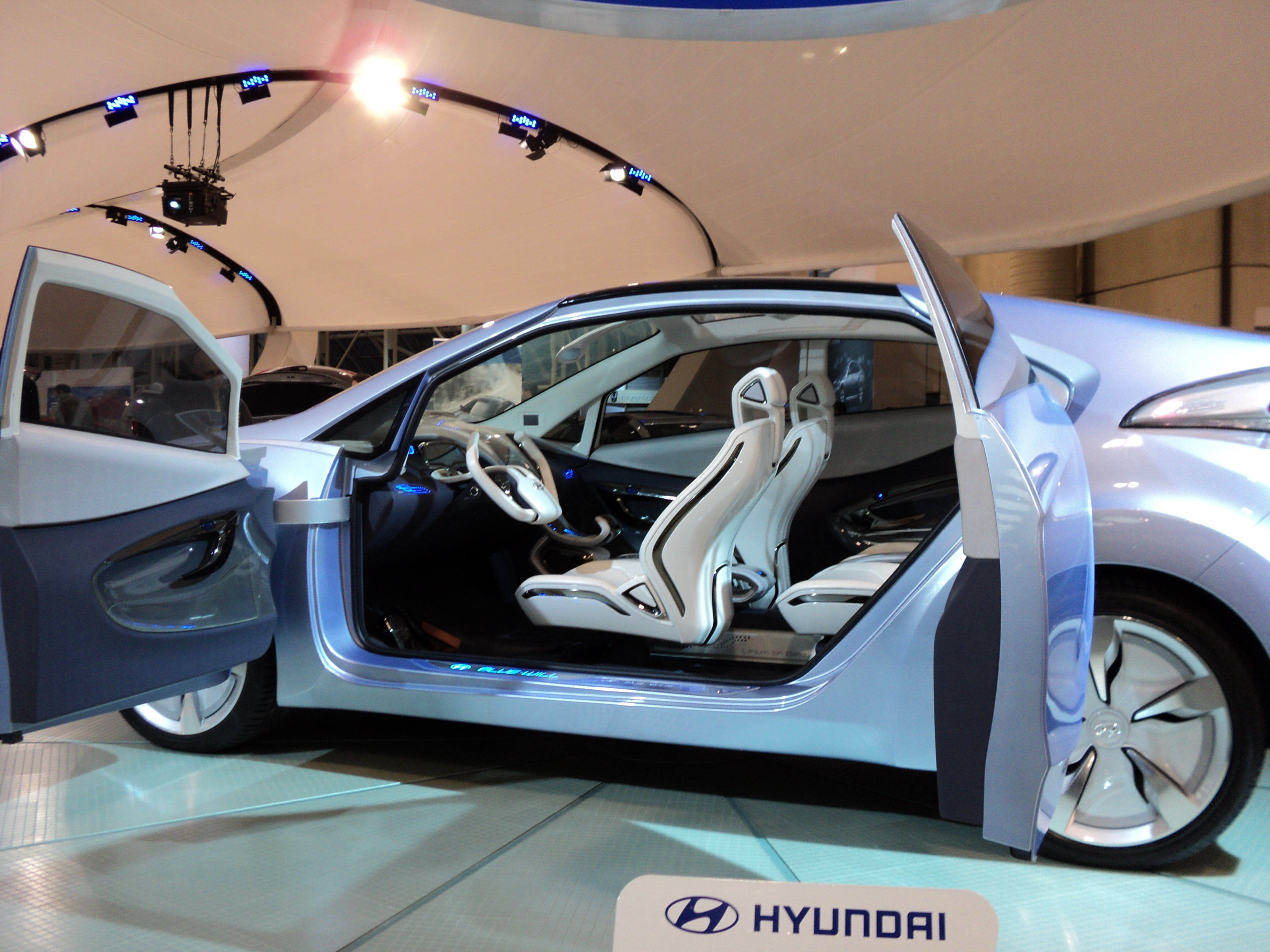 Open doors on the Hyundai Blue-Will concept shown at the 2011 Canadian International Autoshow in Toronto.